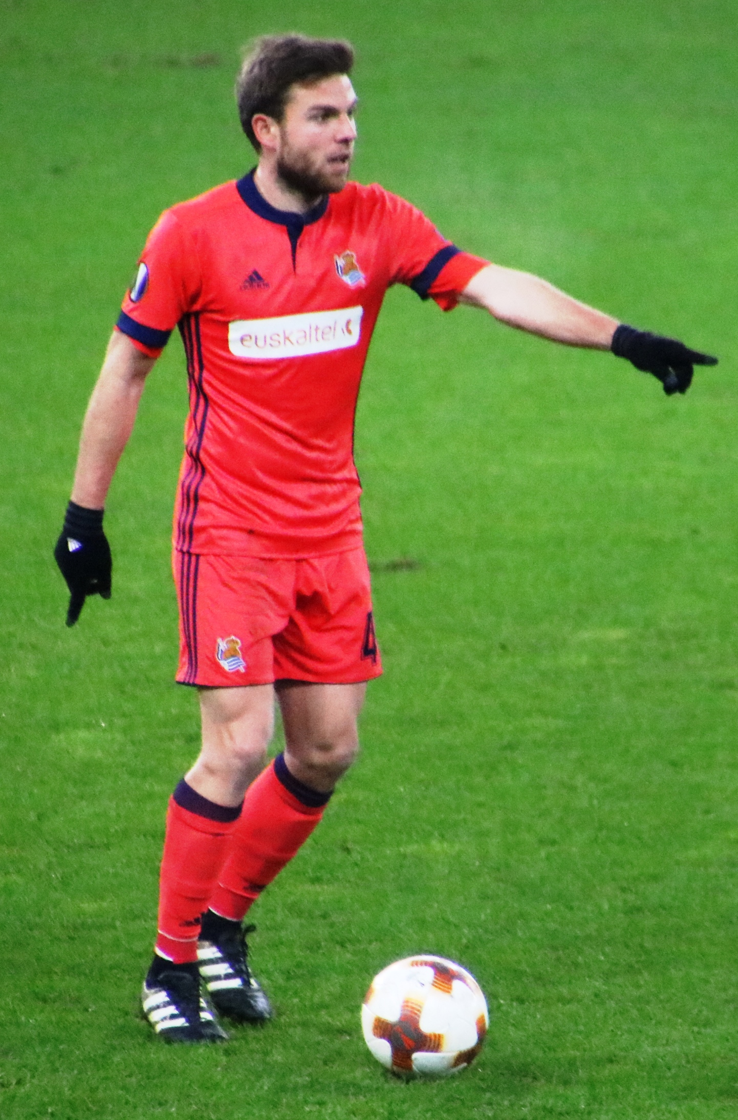 Uefa Europaleague round of 32